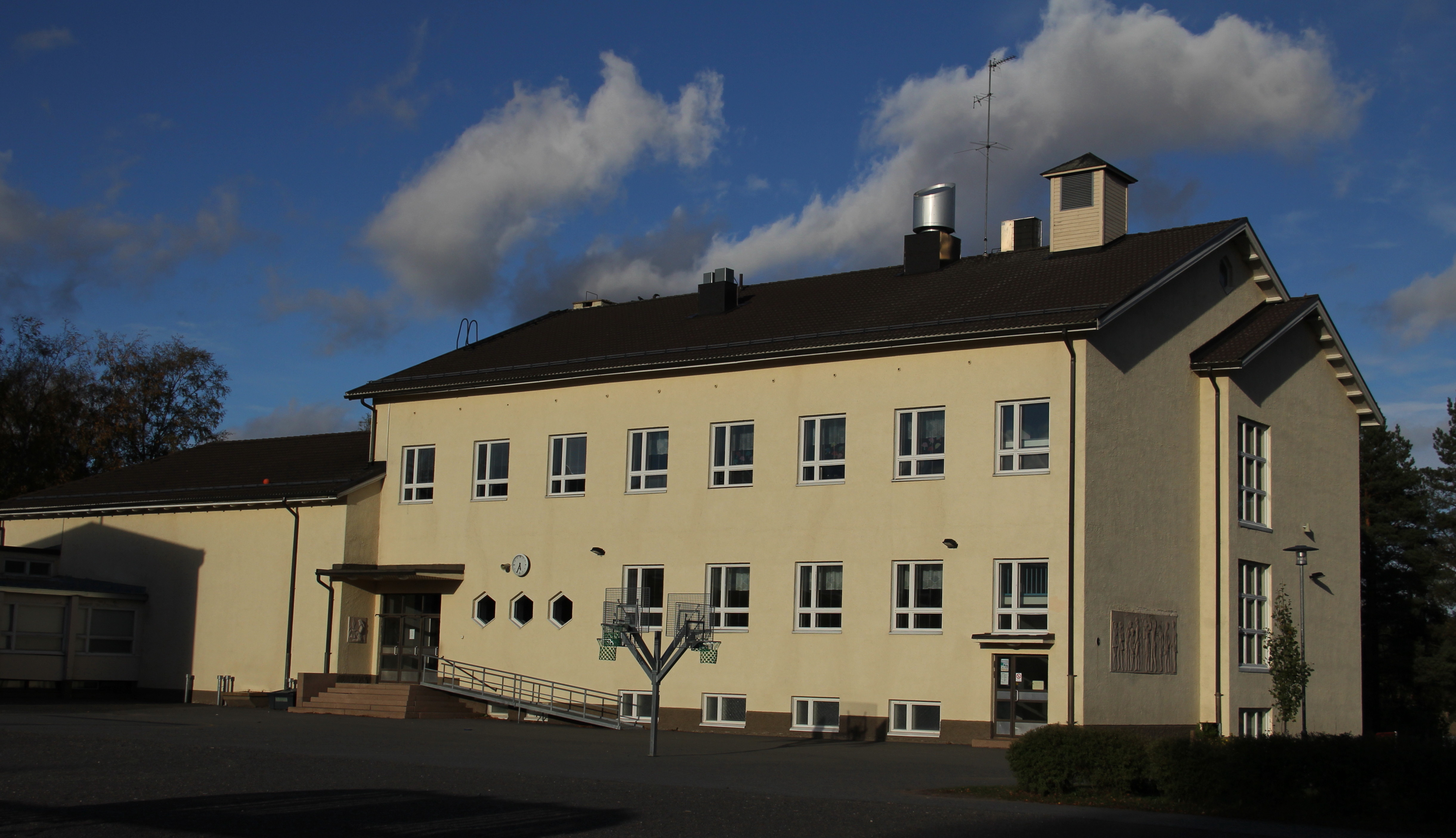 Oripää school, Oripää, Finland. Originally built for Oripää primary school (1948-1976), completed in 1950. Architect Rafael Hellevuori. Seen from the school yard.